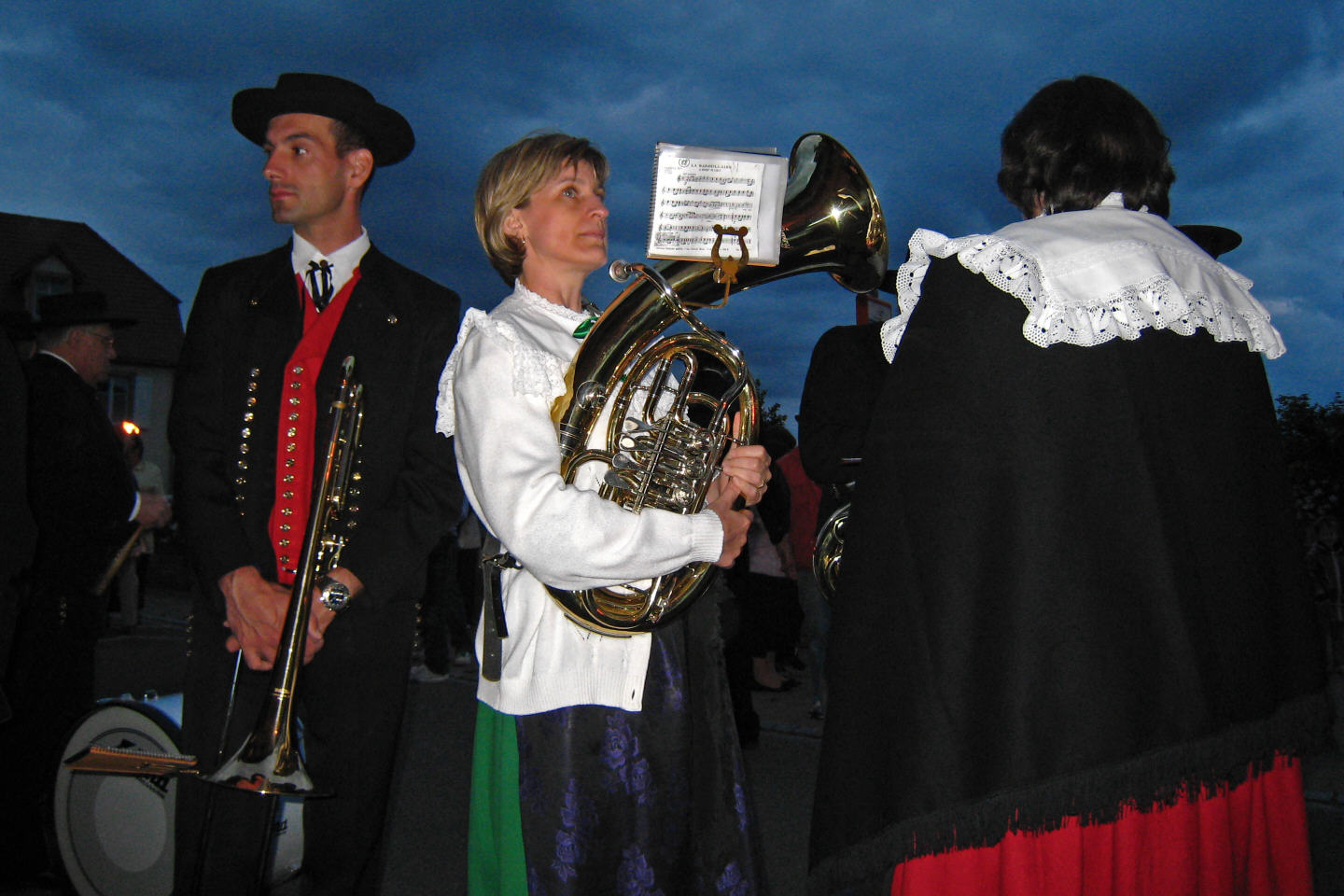 Bastille day in Ottrott, musicians about to play Marseillaise